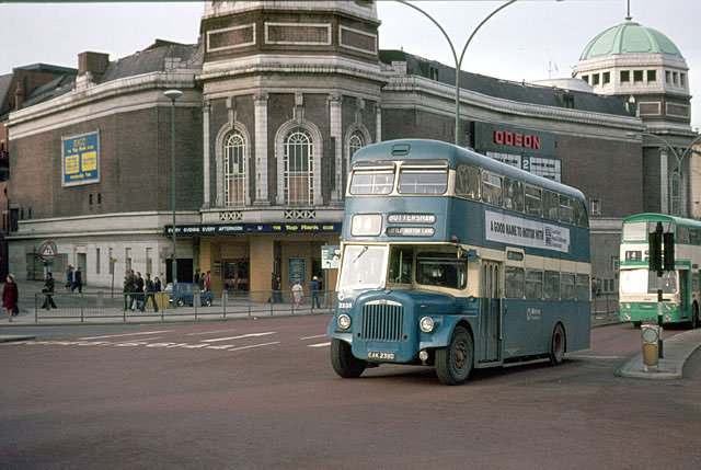 Odeon Cinema (formerly the New Victoria and the Gaumont), Bradford, England. A service 44 bus to Buttershaw passes the Odeon Cinema in the City Centre. Despite having been in the ownership of the West Yorkshire PTE for some years when the picture was taken, it is still wearing the colours of Bradford City Transport. (The PTE colours can be seen on the bus behind). This is one of a series of views featuring buses in the 60s, 70s, and 80s. Link